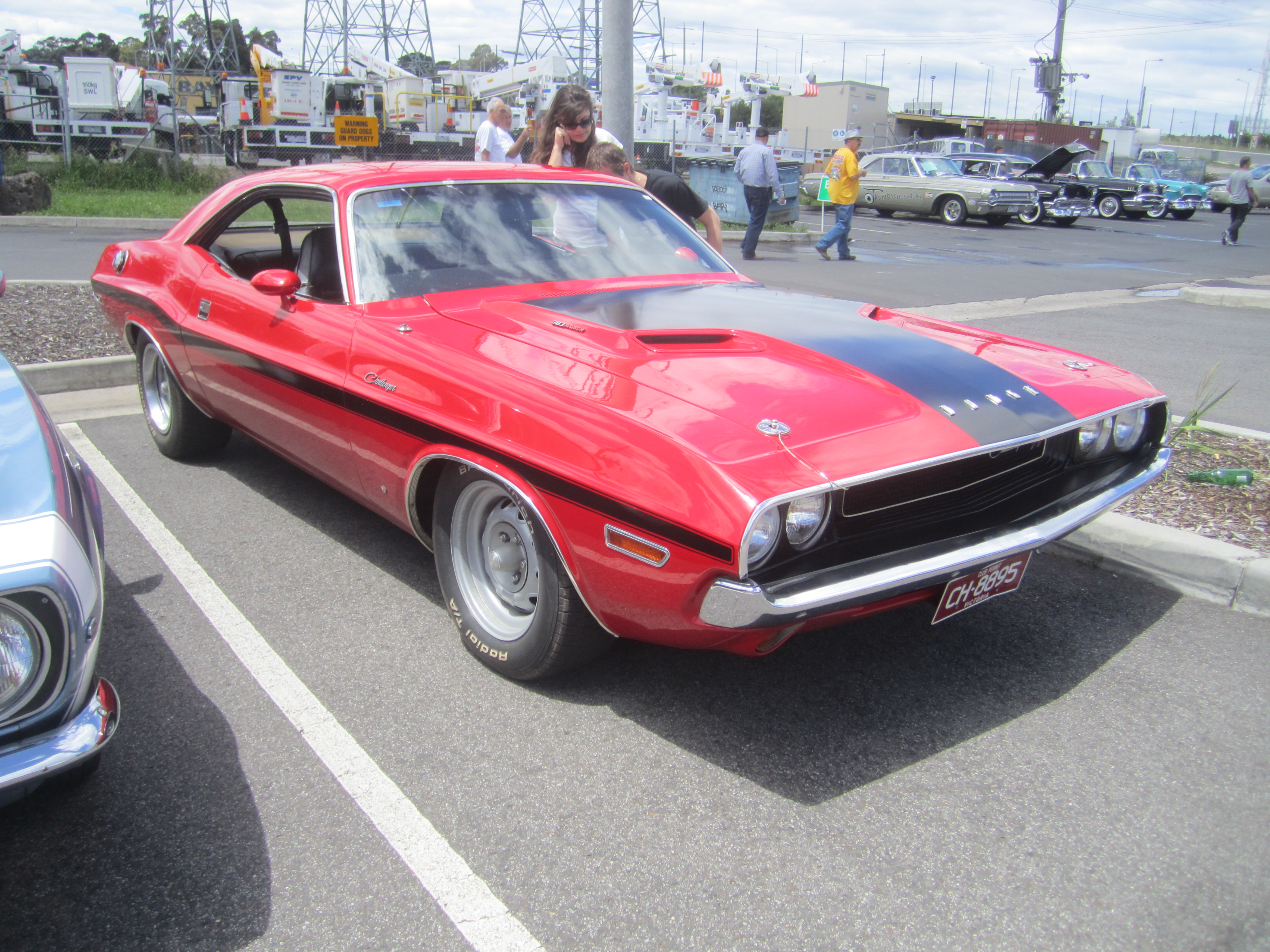 Bright Red. Dodges E body Muscle Car, Dodge Challenger, 1st gen built from 1970-74 Base Engine in RT; 335bhp 383, option 390bhp 440 6 pack or 425bhp 426 Hemi